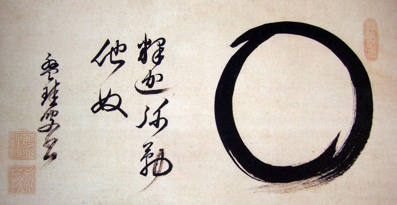 Enso by Bankei Yitaku